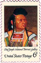 1968 US stamp of Chief Joseph